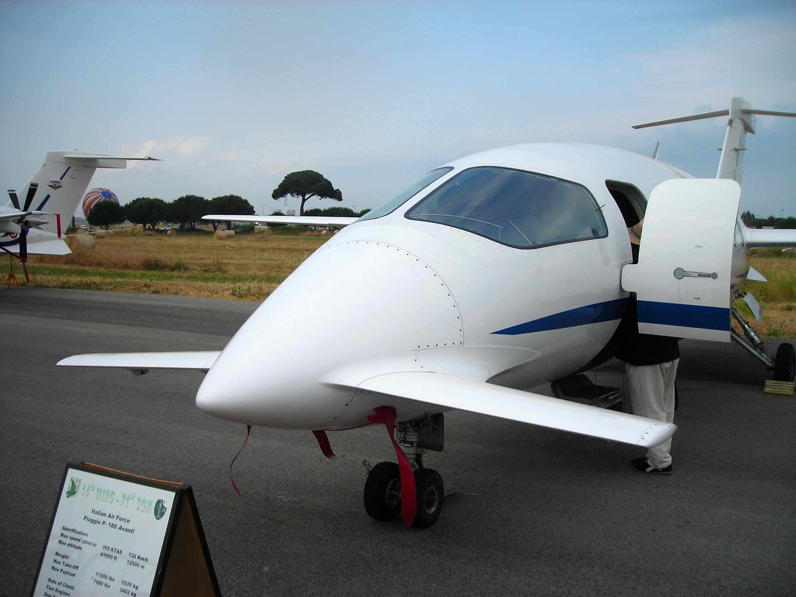 Picture taken during "Giornata Azzurra" 2007 (Italian Air Force airshow) at Pratica di Mare AFB, Italy. Canard of Piaggio P-180 Avanti